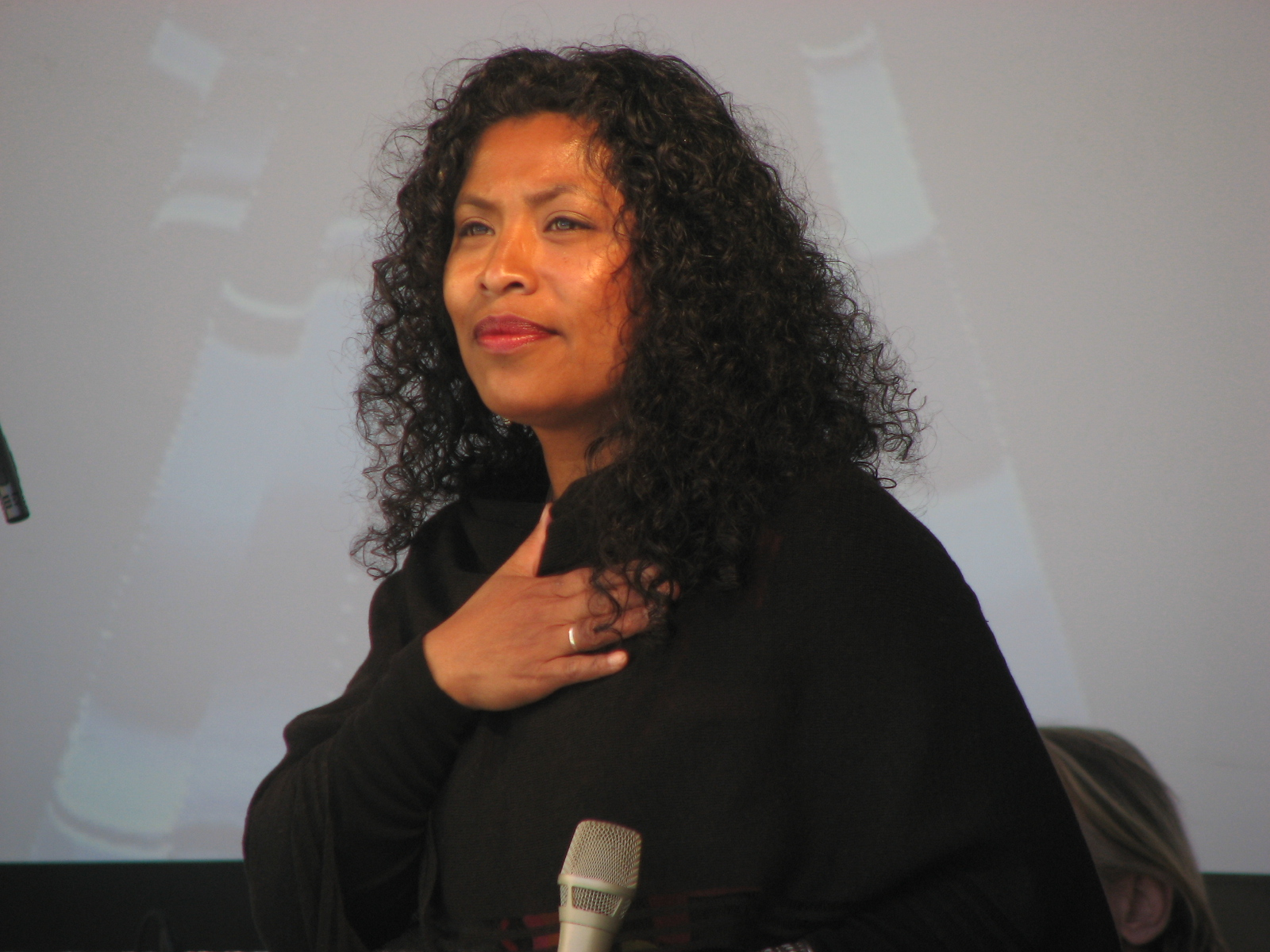 Monica Akihary performing during Europe Day celebrations at Tallinn Freedom Square